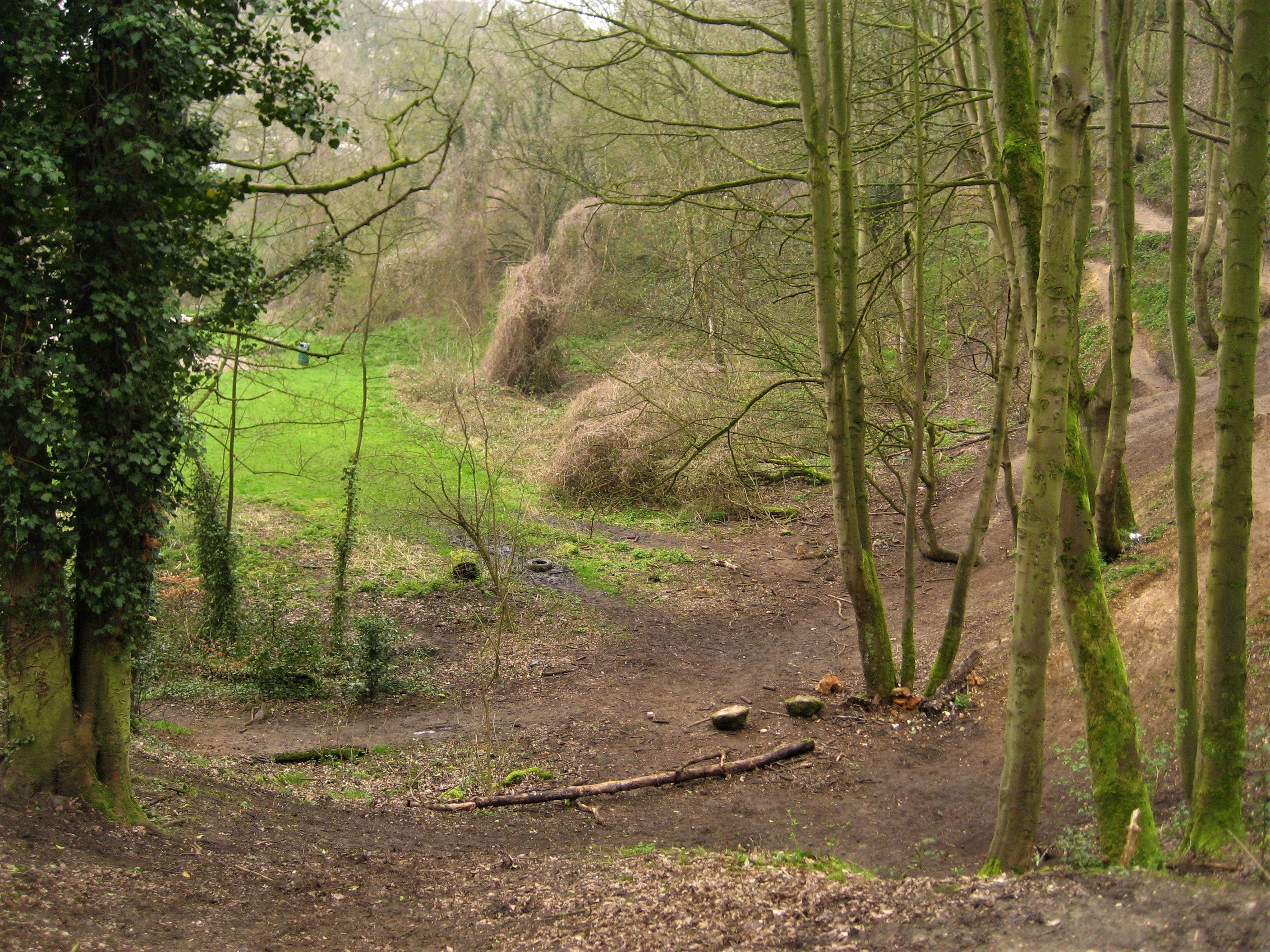 A hollow at the southern tip of Mousehold Heath.